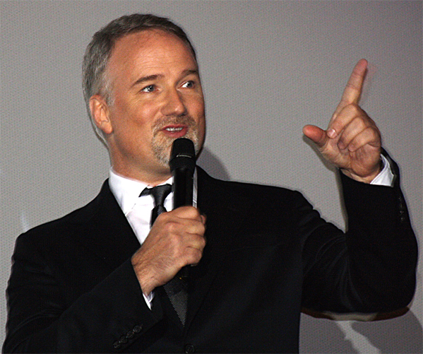 Director David Fincher at the french premiere of his movie The Girl with the Dragon Tattoo in Paris